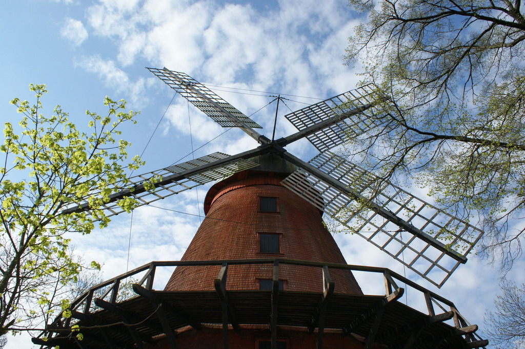 Samppalinna in Turku